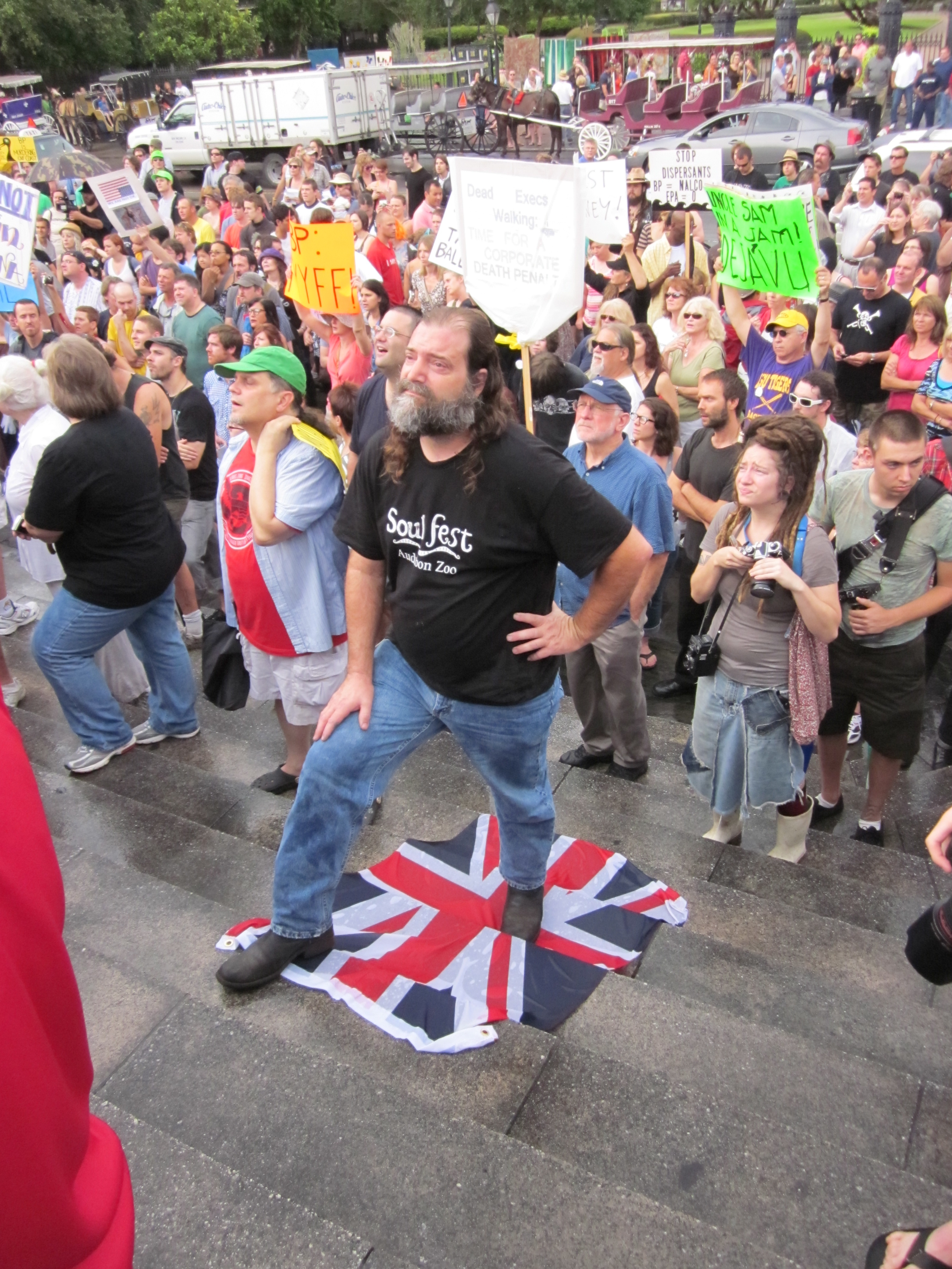 New Orleans. "BP Oil Flood" Protest, Jackson Square. Protest against the great oil spill disaster in the Gulf of Mexico. A protester stands on a Union Flag, presumably associating British Petroleum with Great Britain.